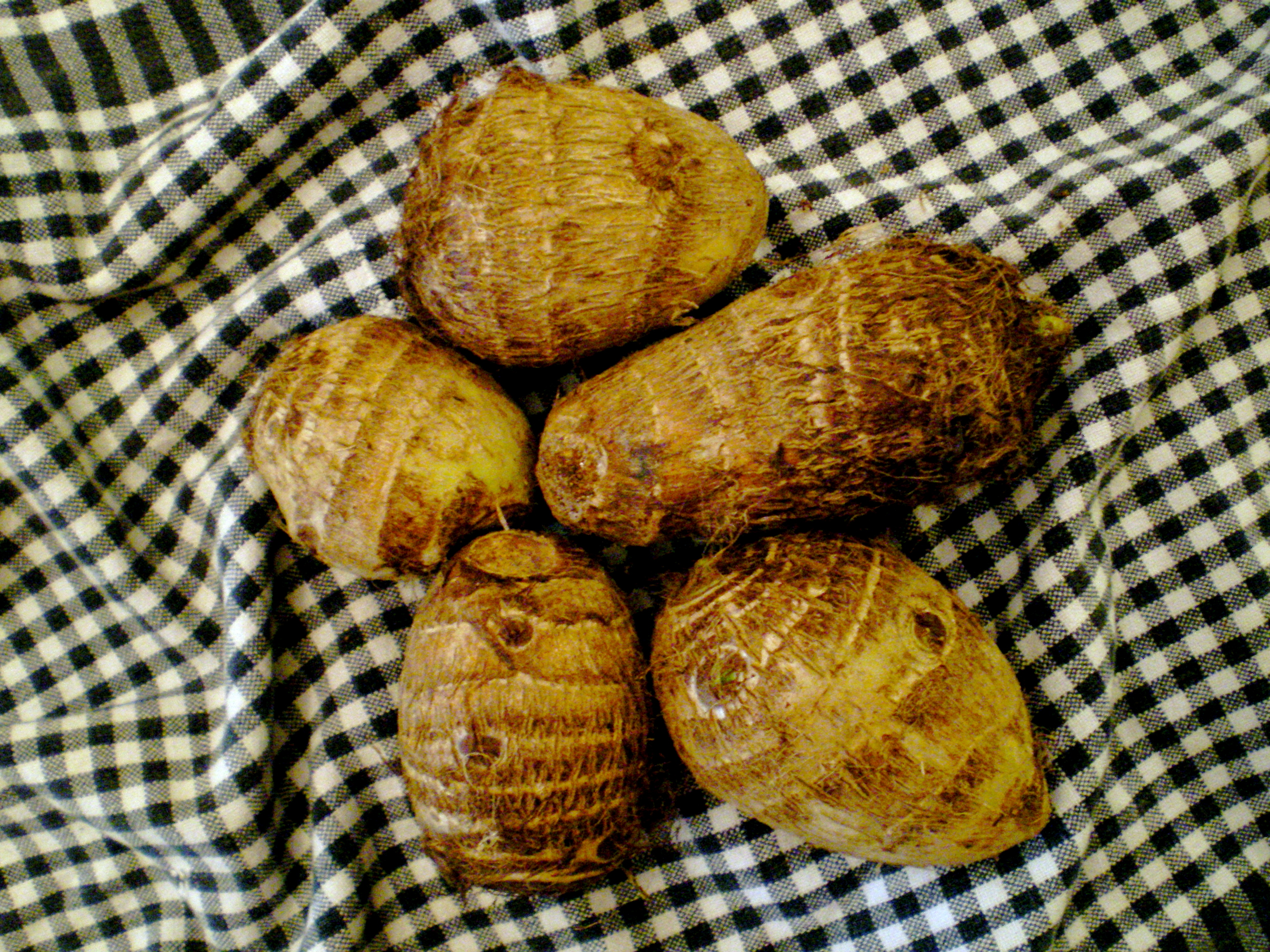 Original description was Photo taken by Alan P. Van Dyke on May 8, 2007. Used by expressed permission.